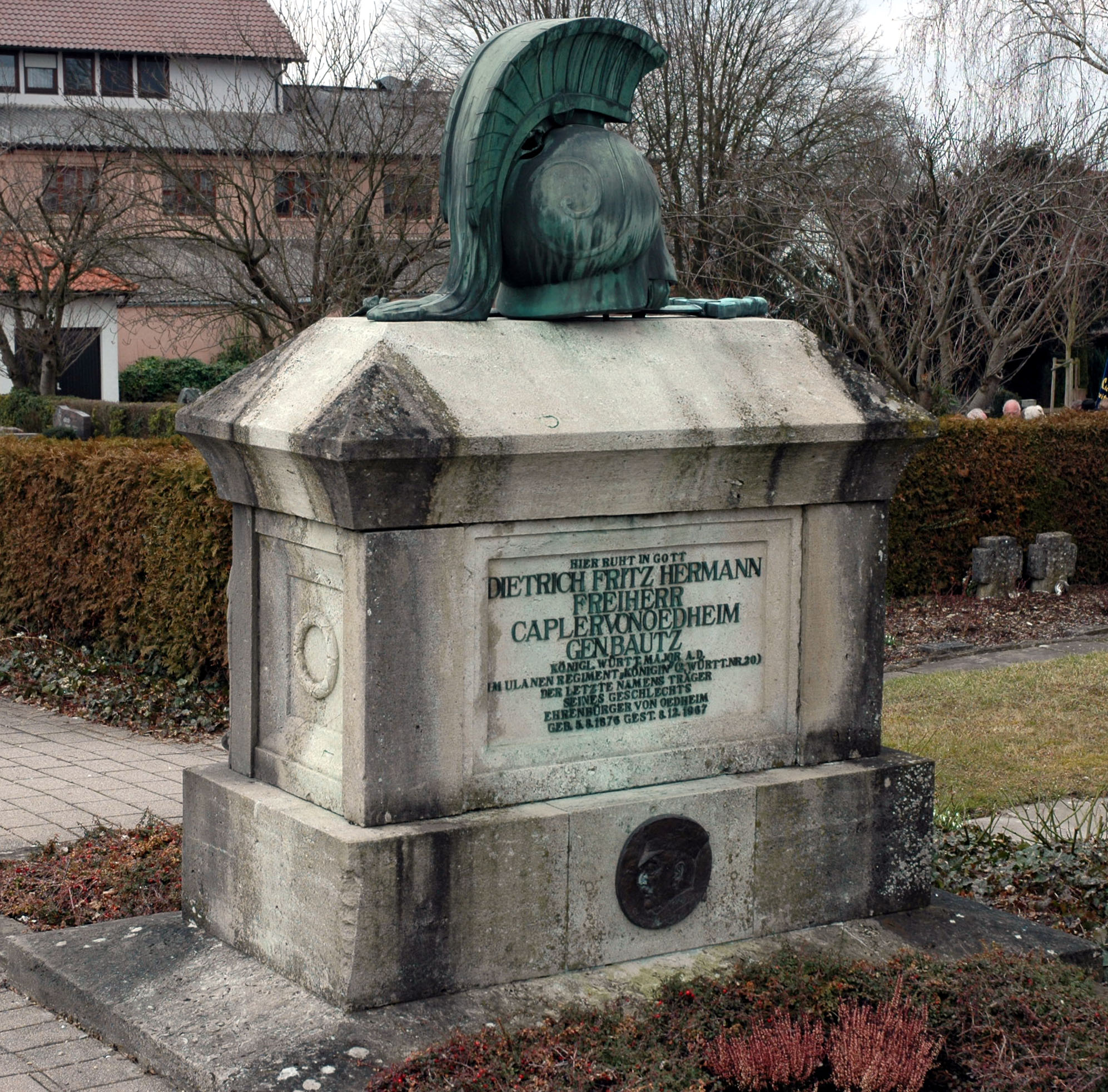 grave of Dietrich Fritz Germann Freiherr Capler von Oedheim genannt Bautz in Oedheim (Germany).